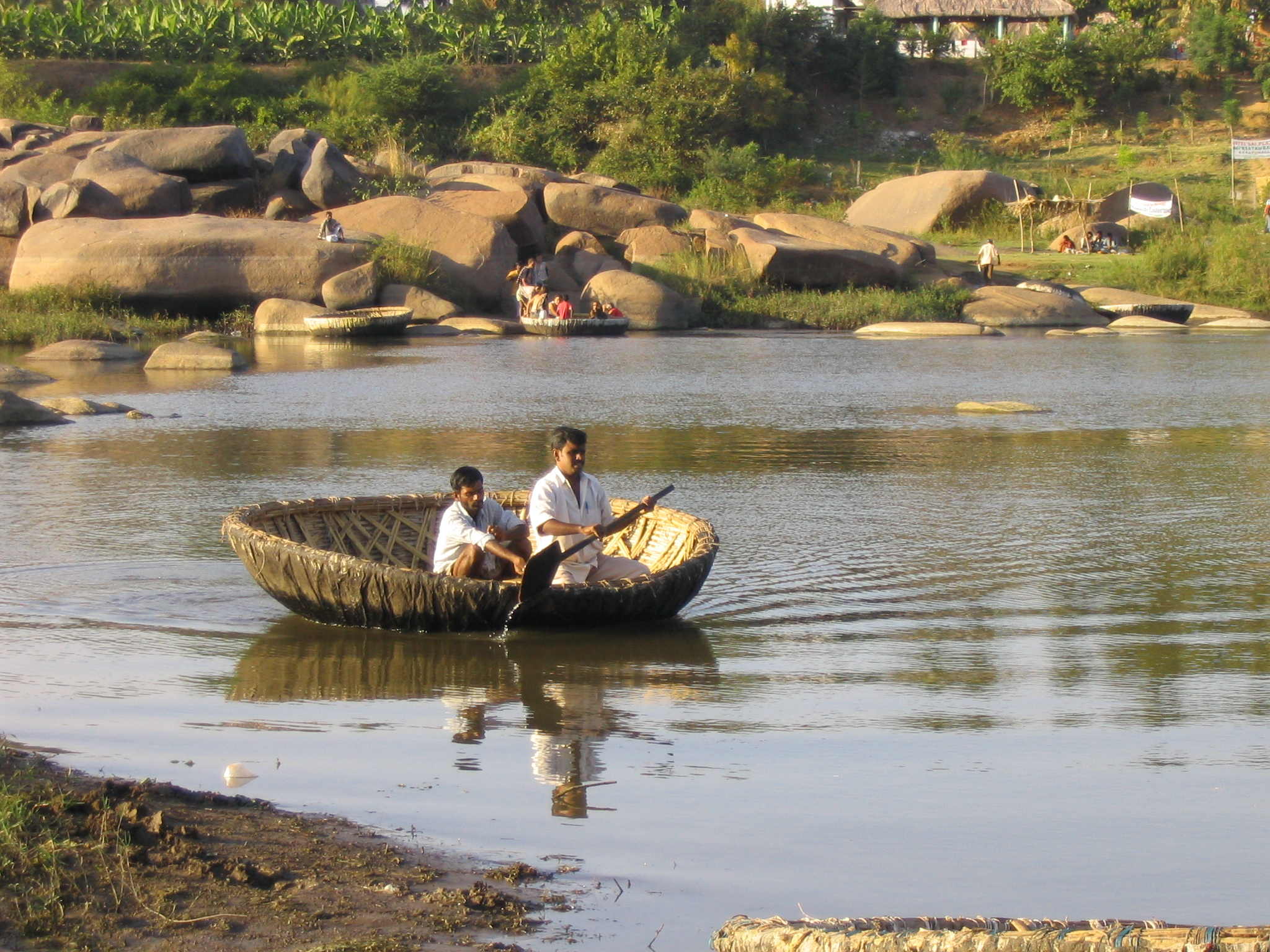 Tungabhadra-River, Hampi, Vijananagar (Karnataka, India)